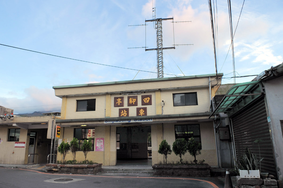 Taiwan Railway Administration SihJiaoTing Station, Platform